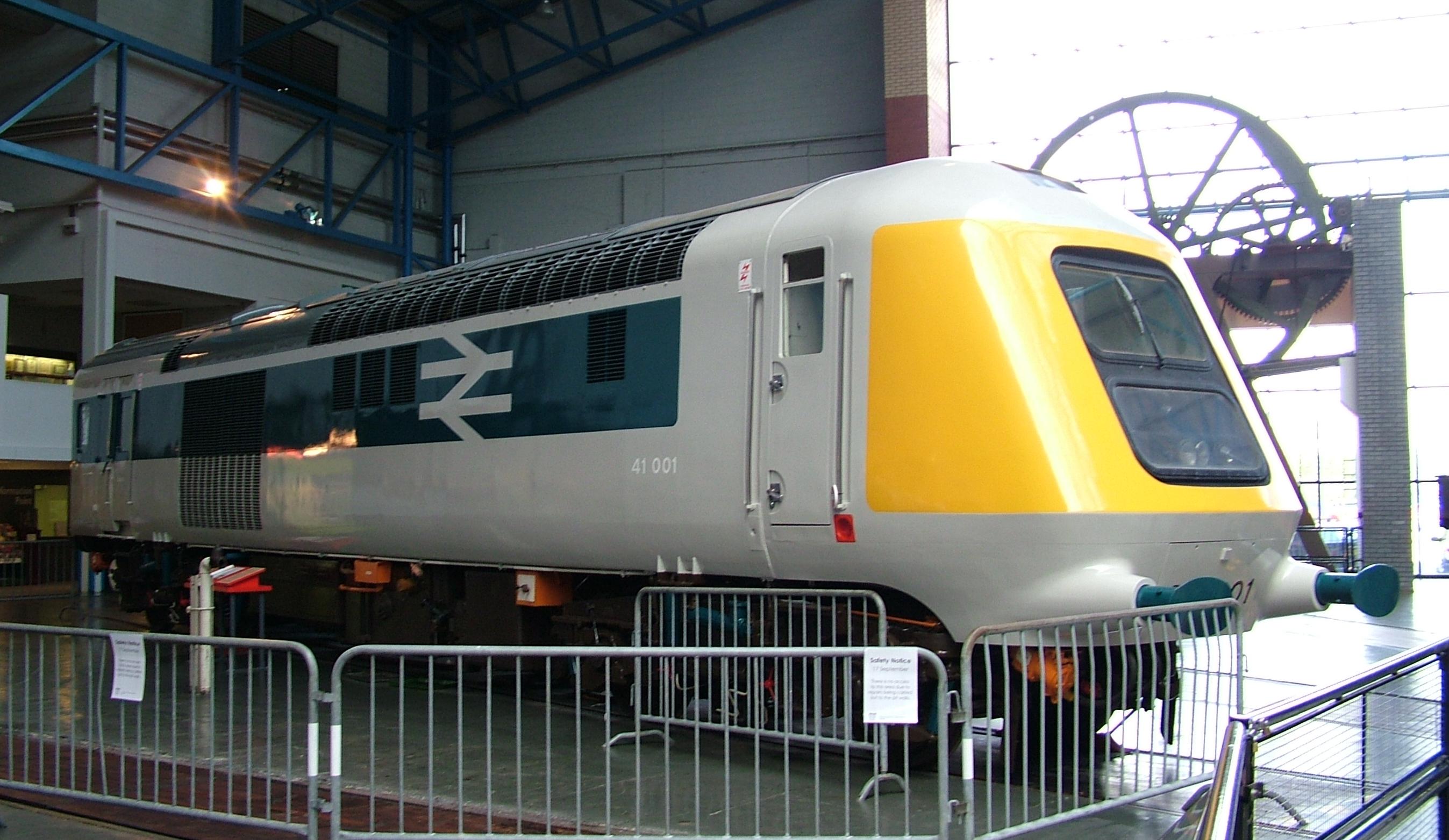 HST 41001 Front